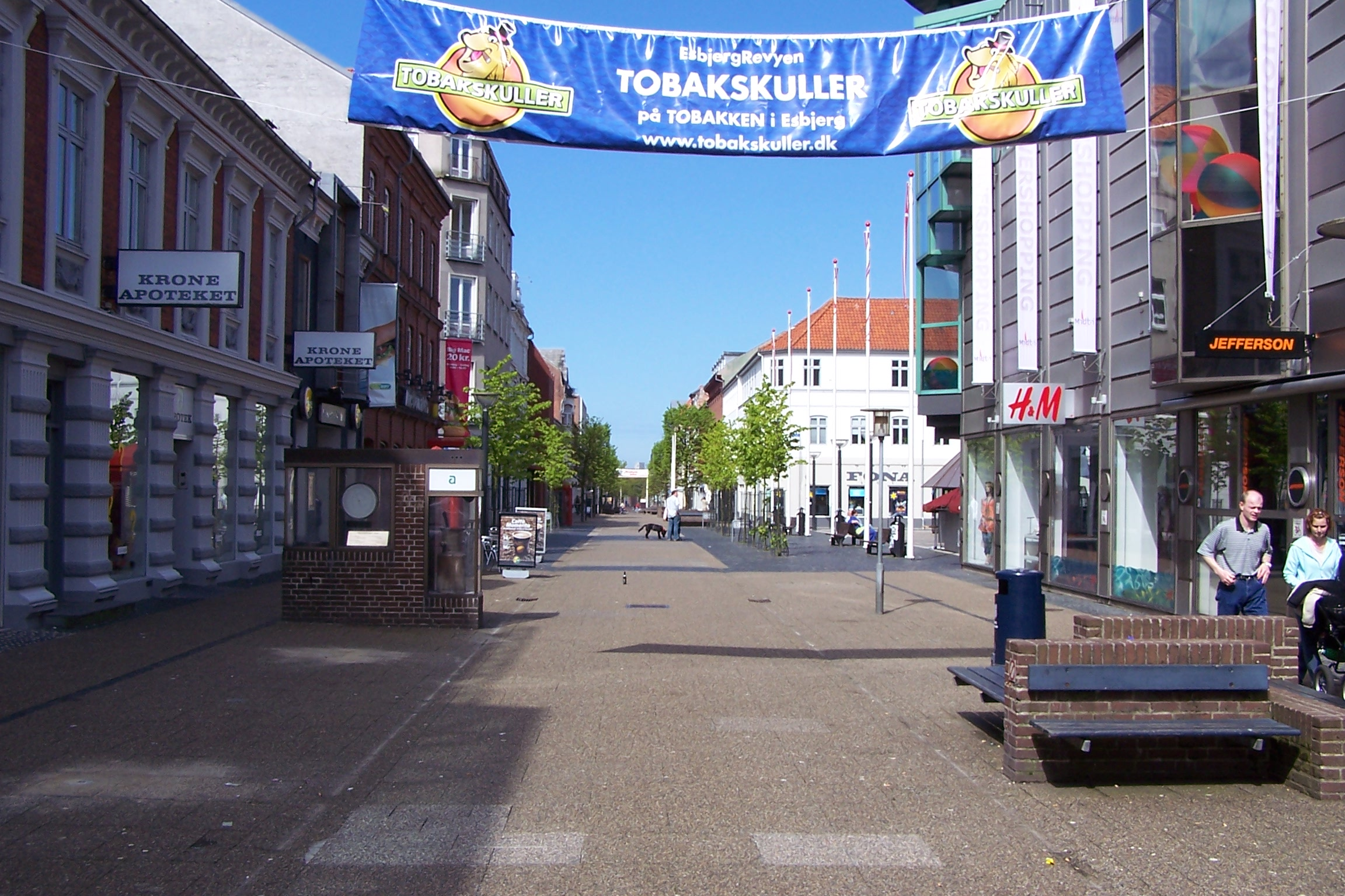 Esbjerg, pedestrian area in town centre (Kongensgade). Photo by Cnyborg, May 2005.